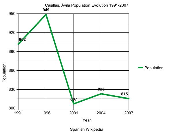 Casillas' population, Ávila (1991-2007).